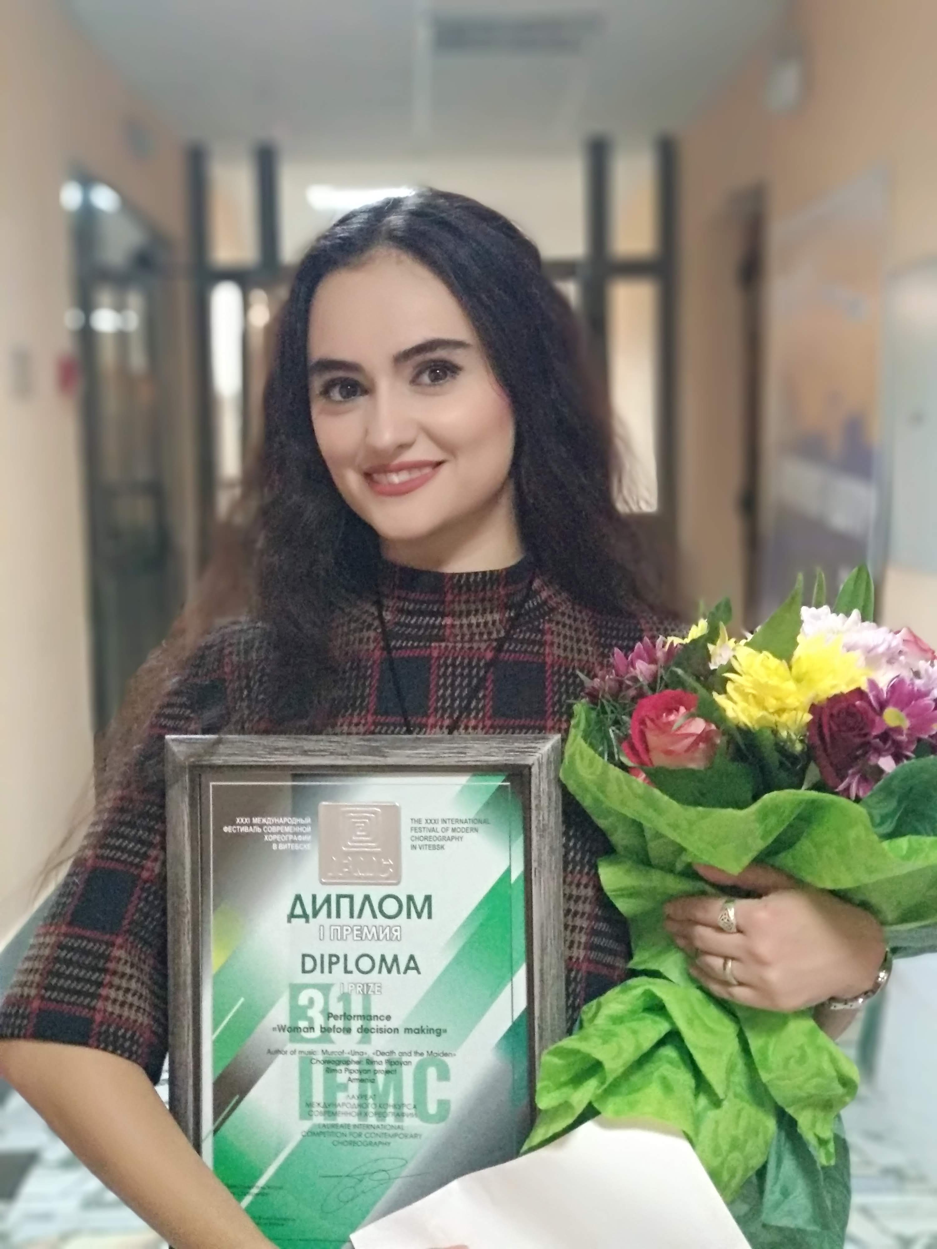 Rima Pipoyan receiving 1st Prize at IFMC contest